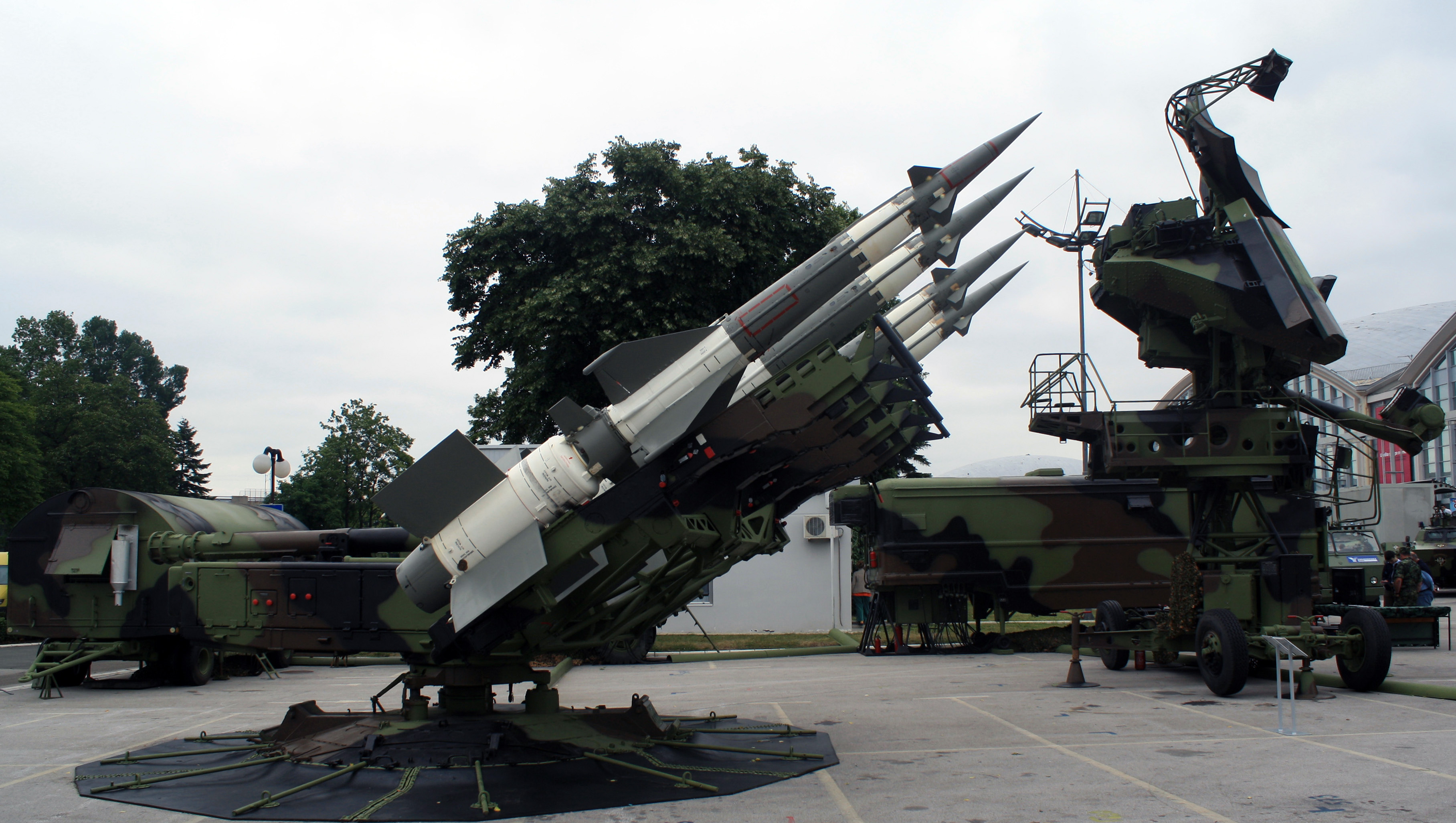 S-125 Neva air defense system from 250th Air Defense Brigade of Serbian Army on display at "Partner 2011" military fair.